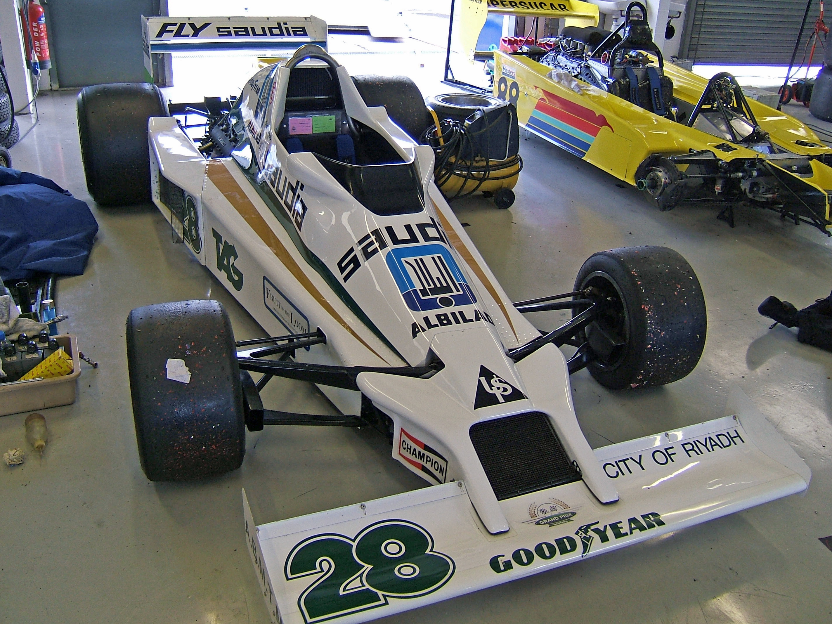 A Williams FW06 in the pit garages at Silverstone, July 2007.